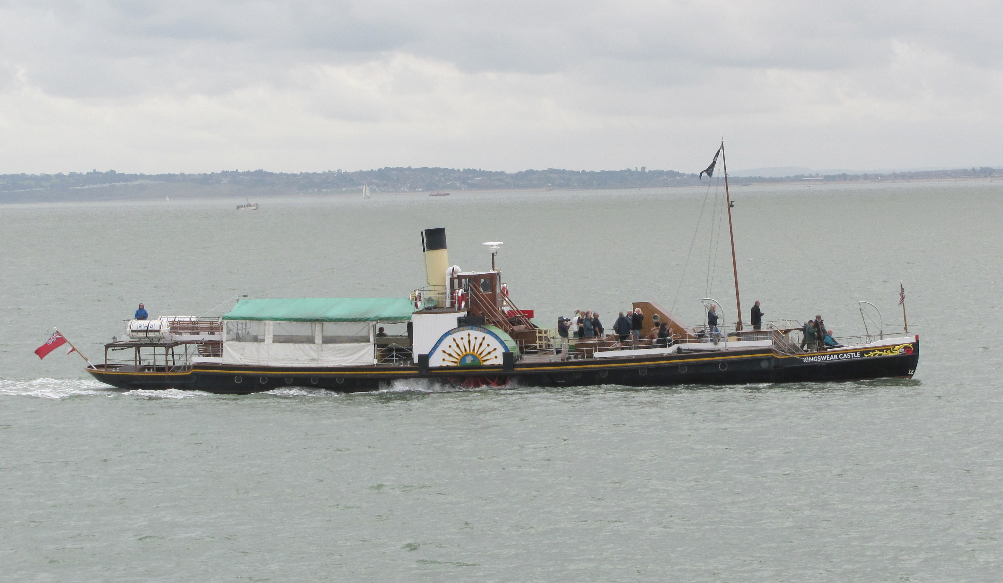 paddle steamer off Southend Pier